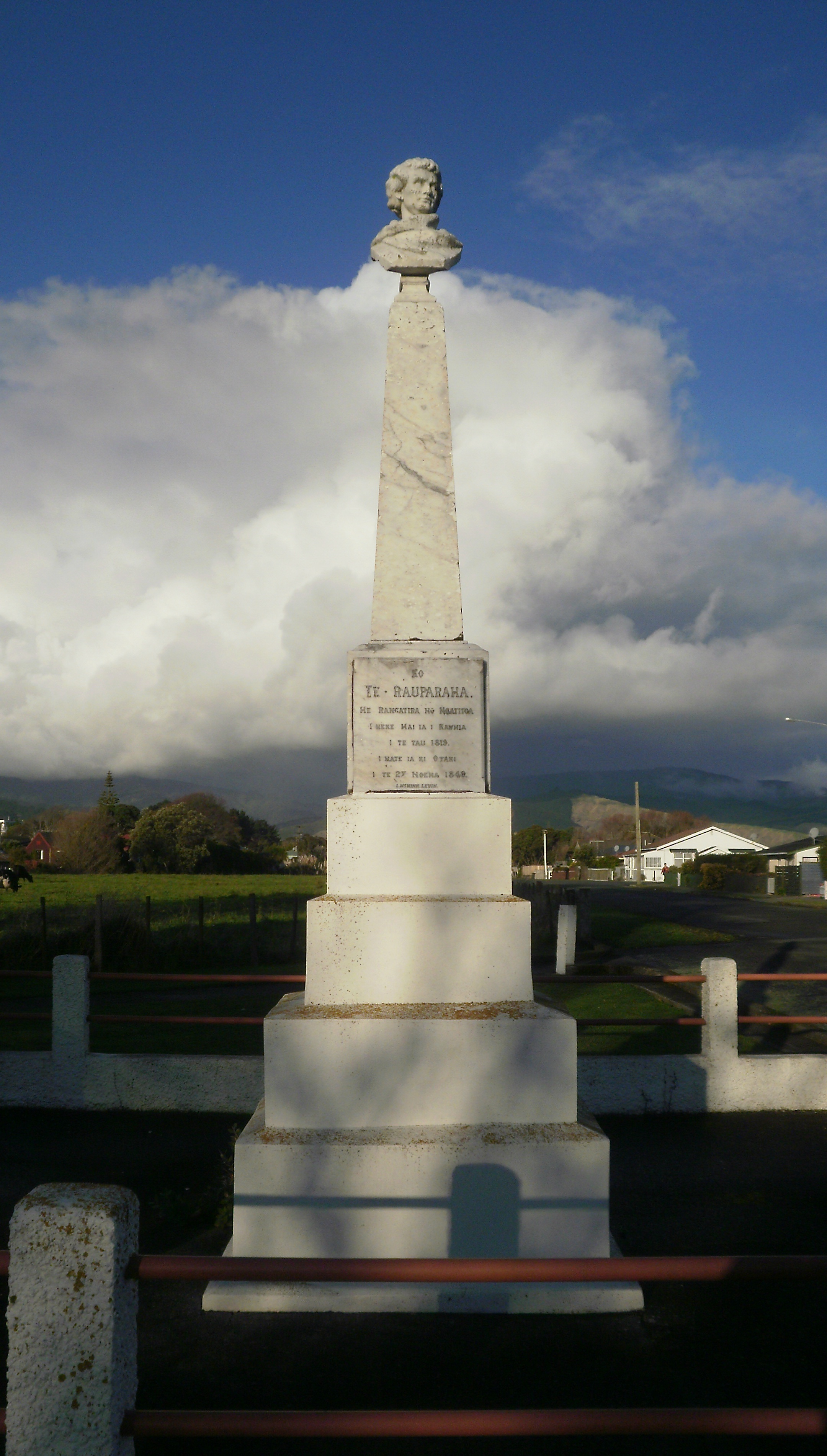 Te Rauparaha Memorial, in Ōtaki, New Zealand. The memorial was commissioned by Te Rauparaha's son Tamihana, and erected in 1880. It is the only public carved likeness of Te Rauparaha.